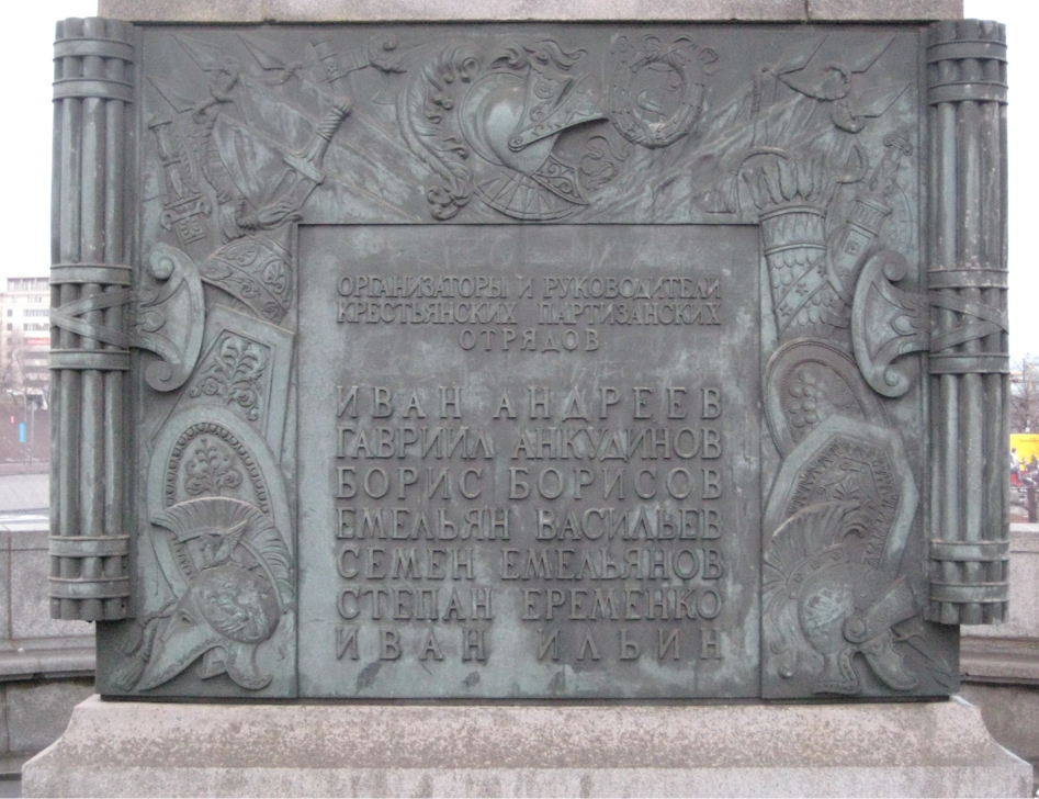 A trophy at the Borodinskiy Bridge in Moscow, build in 1912 as a memorial to the victory over Napoleon (1812) in neoclassical style